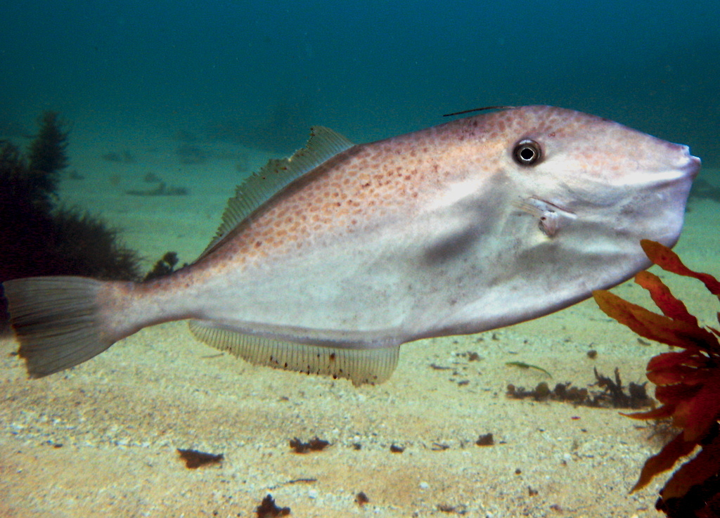 A Unicorn Leatherjacket (Aluterus monoceros). Fairy Bower, Manly, NSW